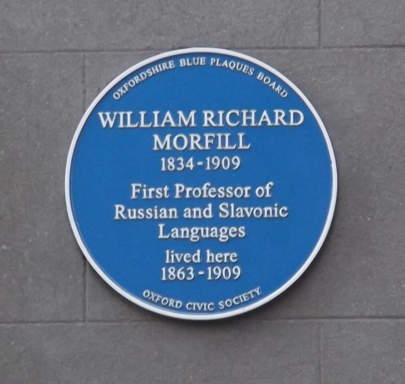 Blue plaque on the house once inhabited by William Morfill in Park Town, North Oxford, England.